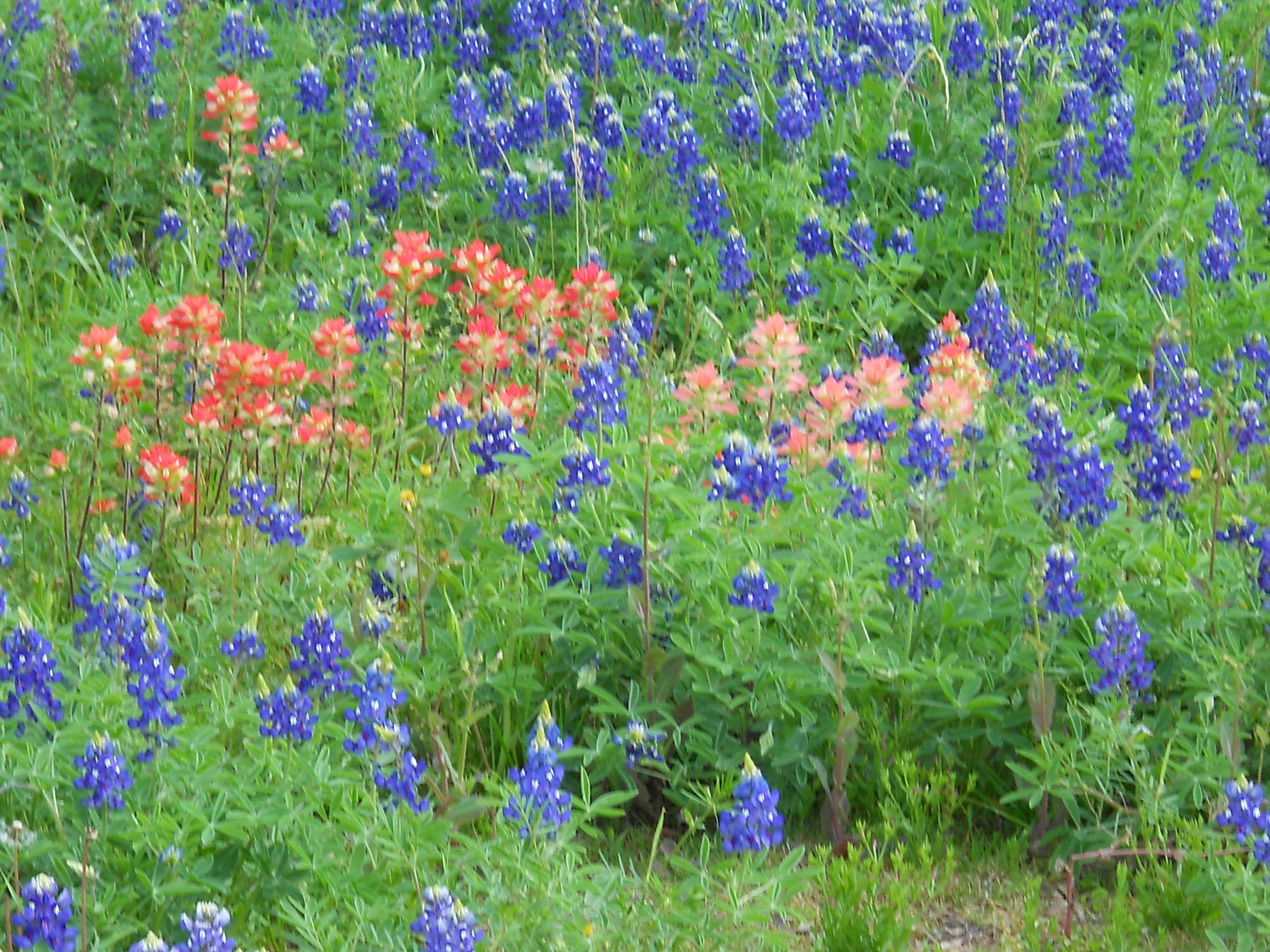 Bluebonnets and Indian Paintbrush in bloom Lone Star Monument and Historical Flag Park.